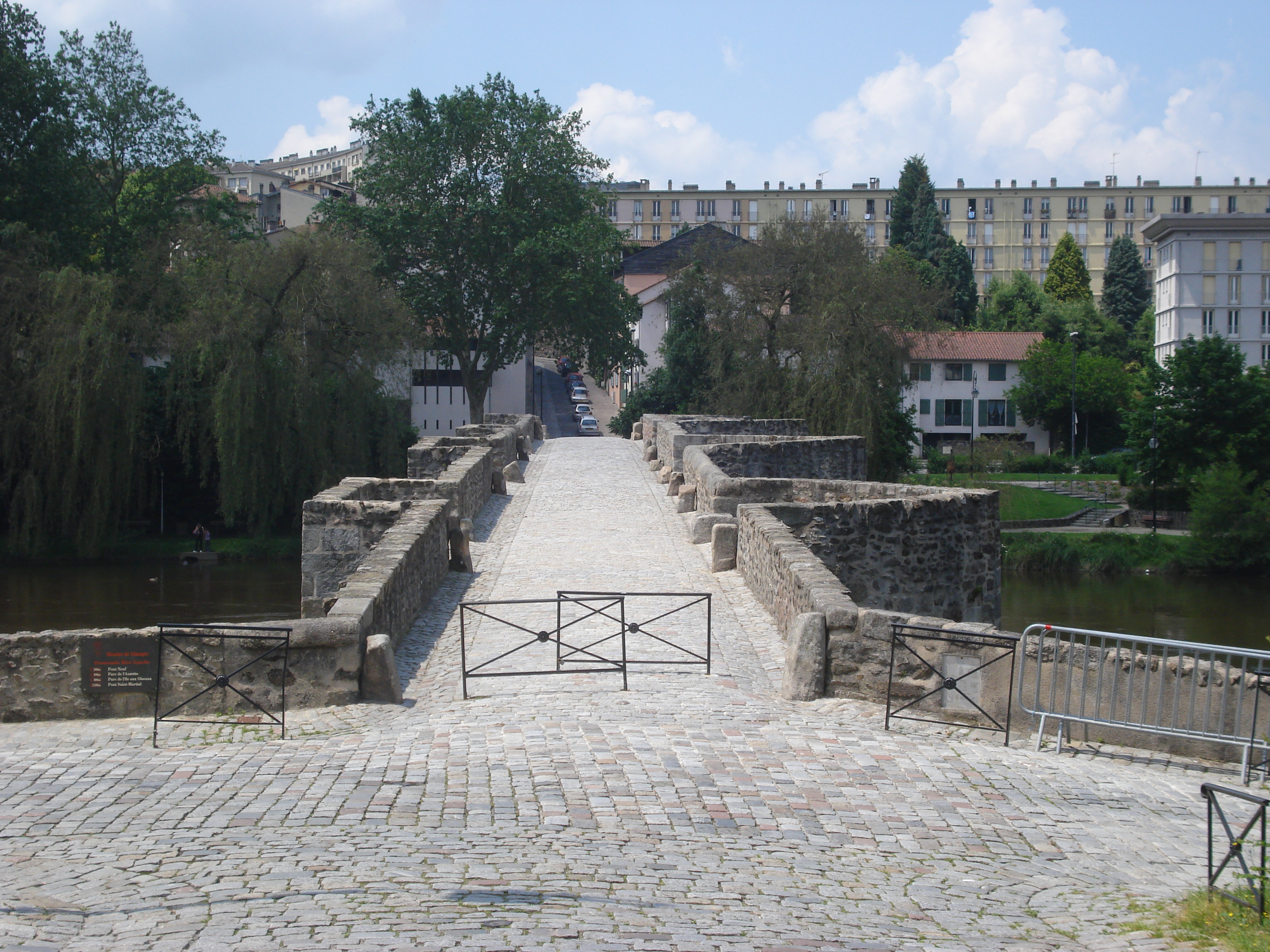 Limoges Fr., Pont_St.Etienne, mediaeval pilgrimsbrigde on the Via Lemovicensis, crossing the Vienne River